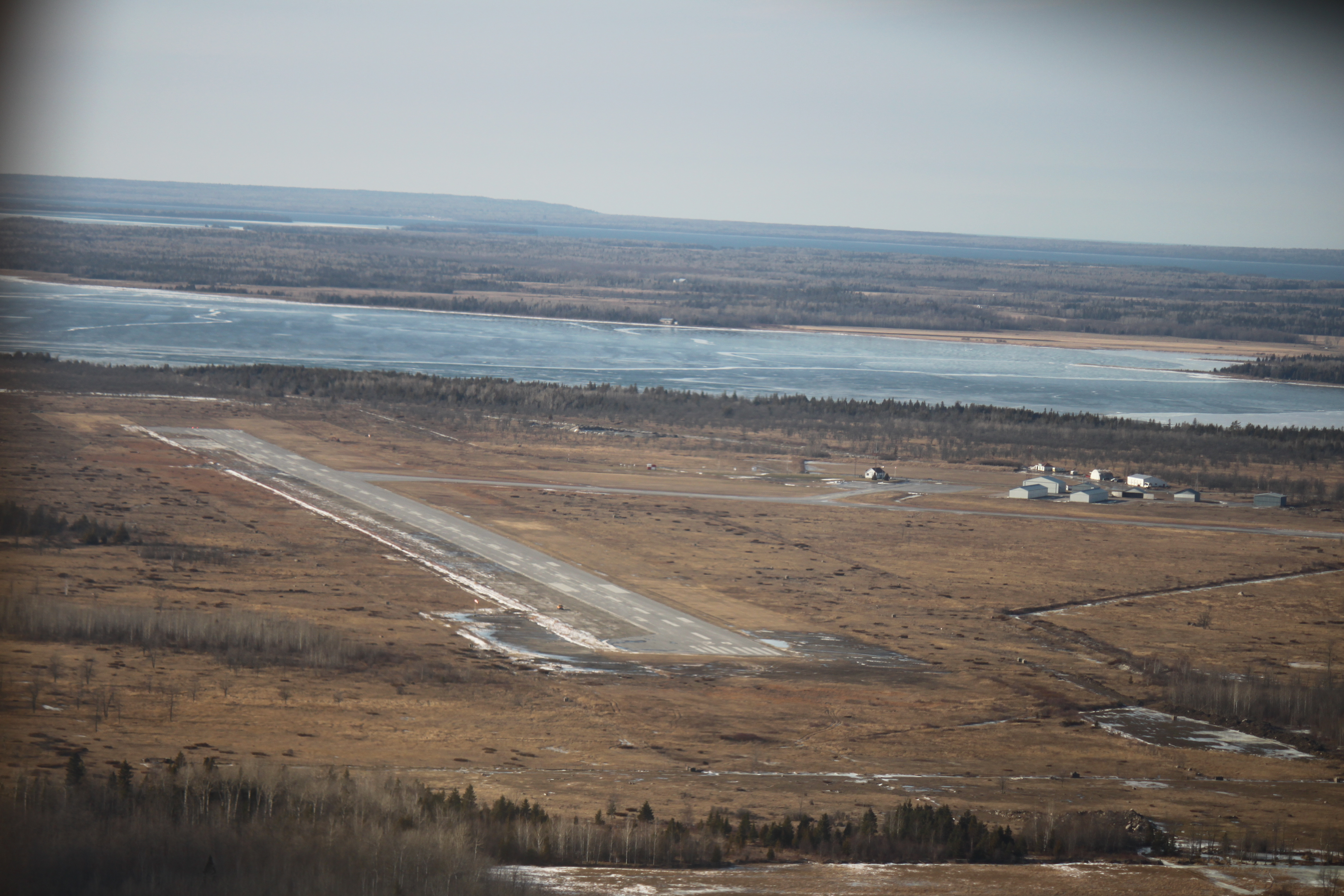 Gore Bay Manitoulin Airport